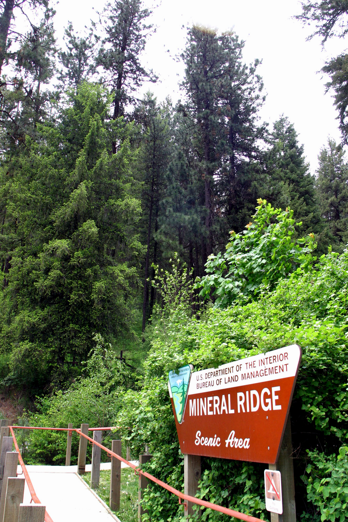 Trail head of Mineral Ridge National Recreation Trail in Kootenai County, Idaho